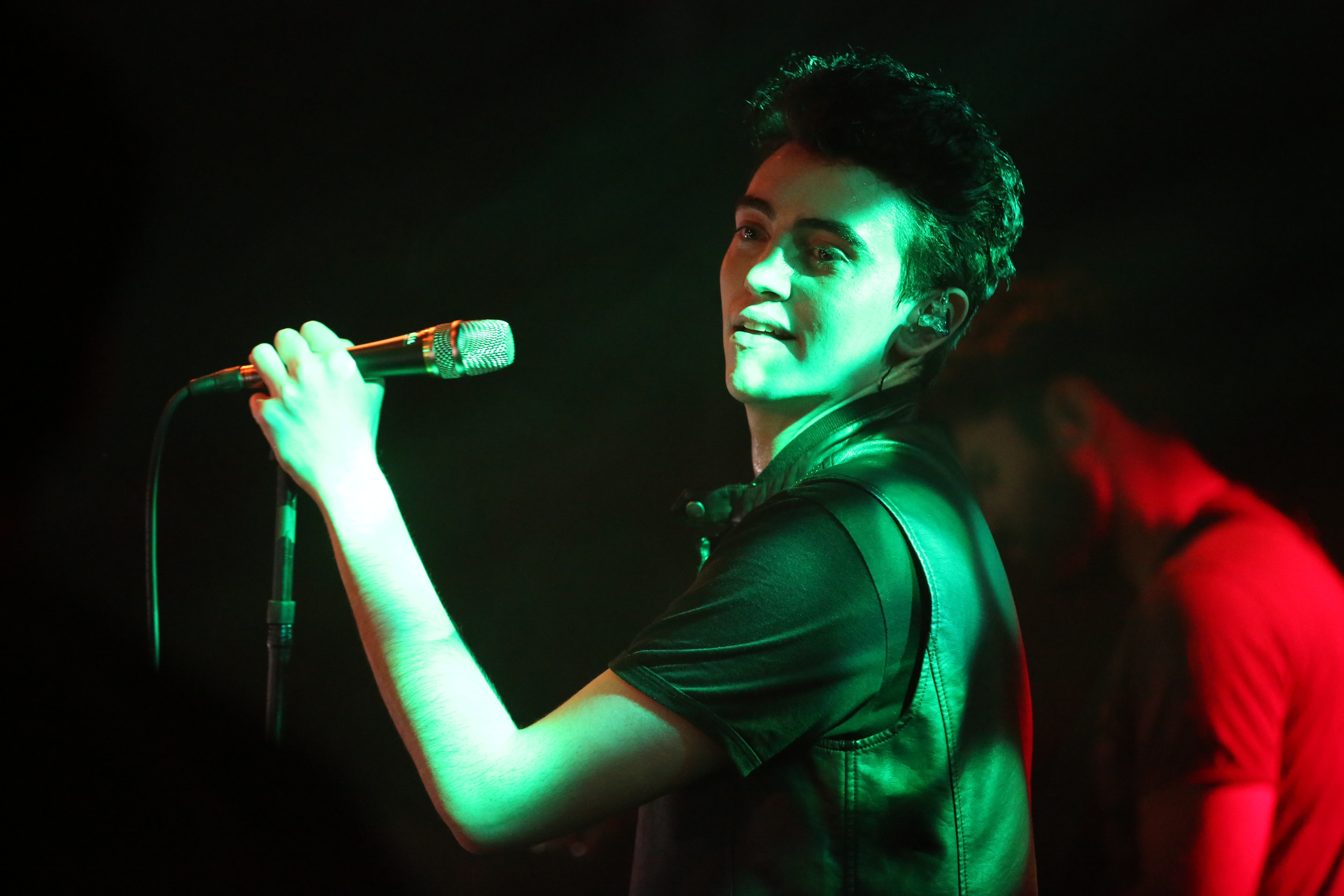 Michele Bravi live at New Age Club in Roncade on the 13th March, 2016